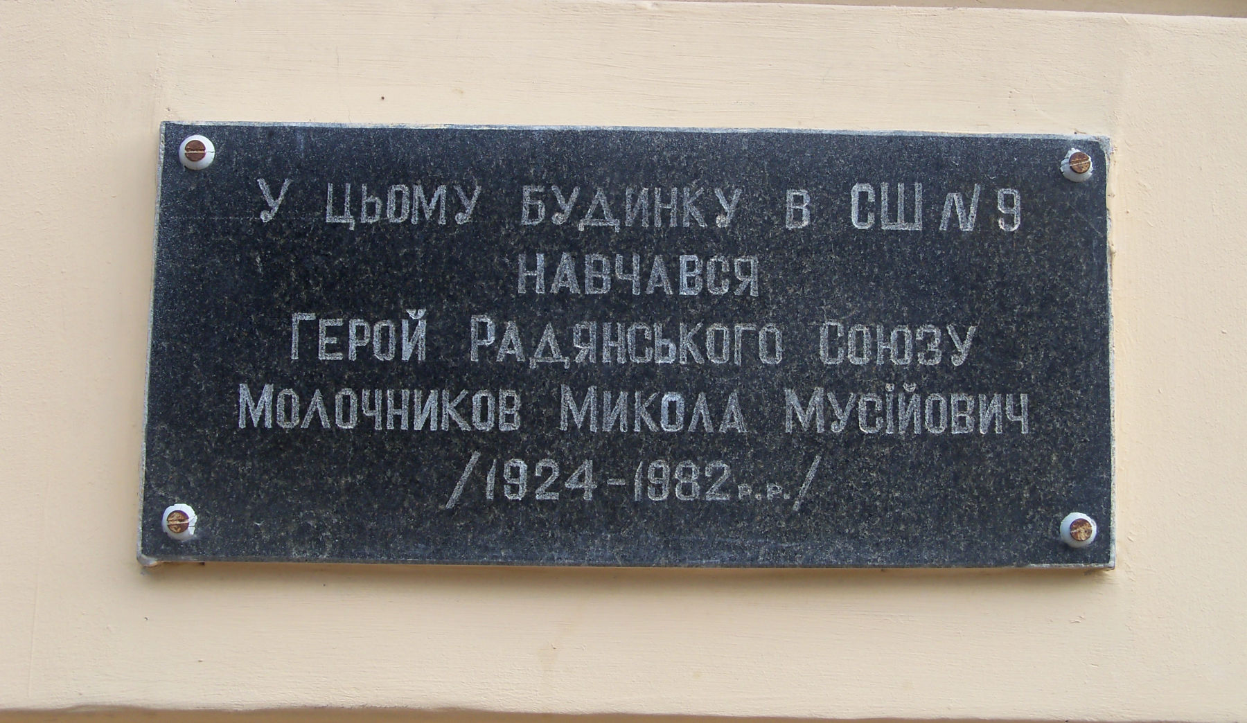 M. M. Molochnykov commemorative plaque in Kremenchuk